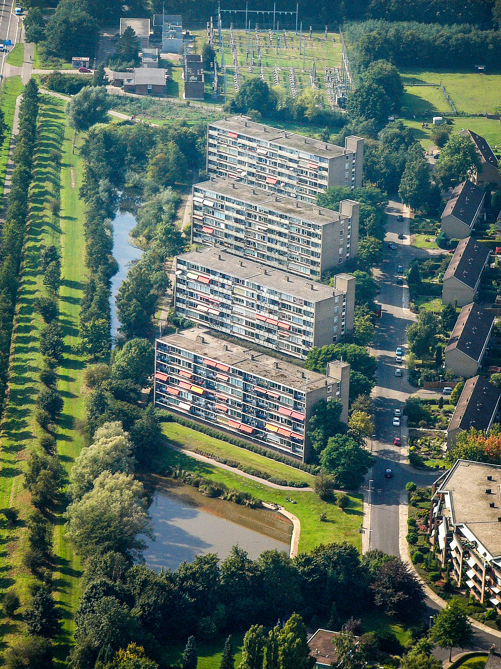 Almelo Aalderinkshoek Mozartstraat flats luchtfoto 20 september 2005